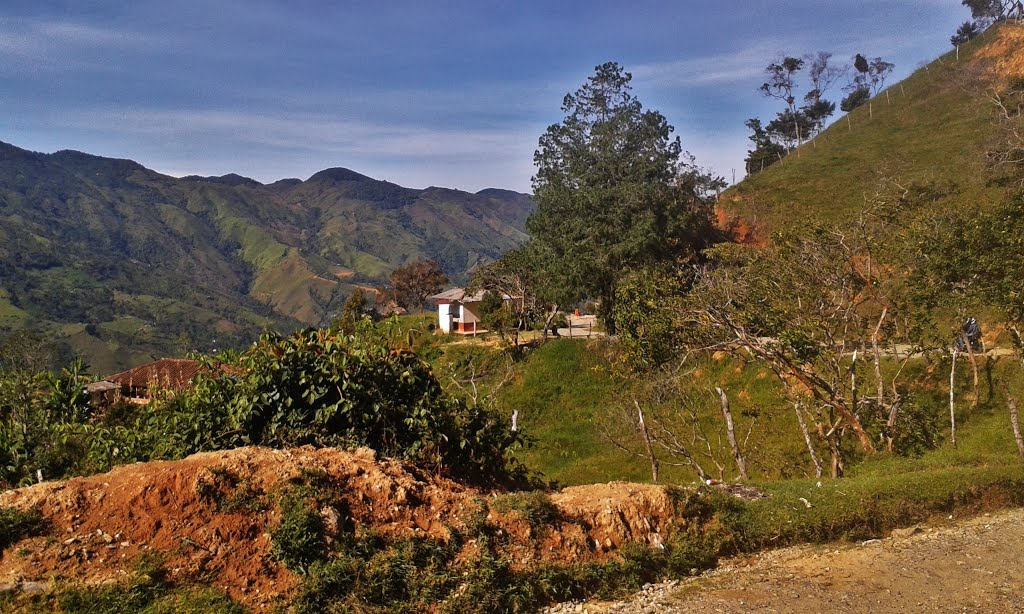 Paisaje de San Isidro, Santa Rosa de Osos